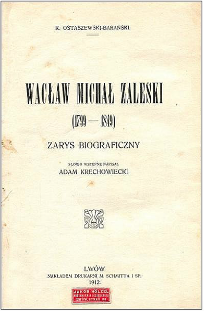 book cover from 1912